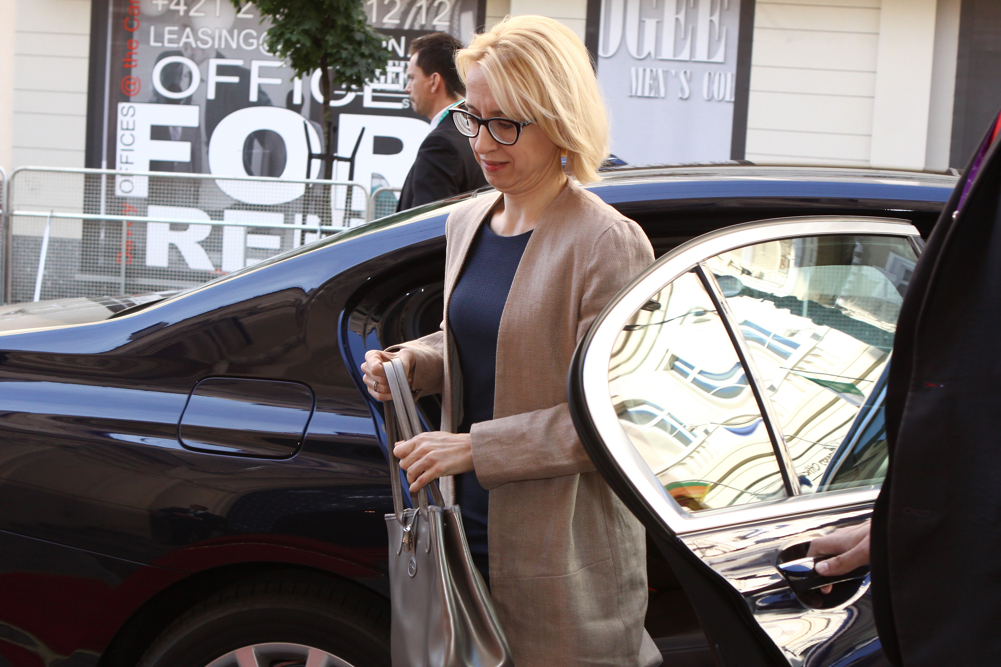 Mrs. Teresa Czerwinska (Poland), Undersecretary of State. Informal Meeting of Ministers responsible for Competitiveness (Research). Photo: Andrej Klizan